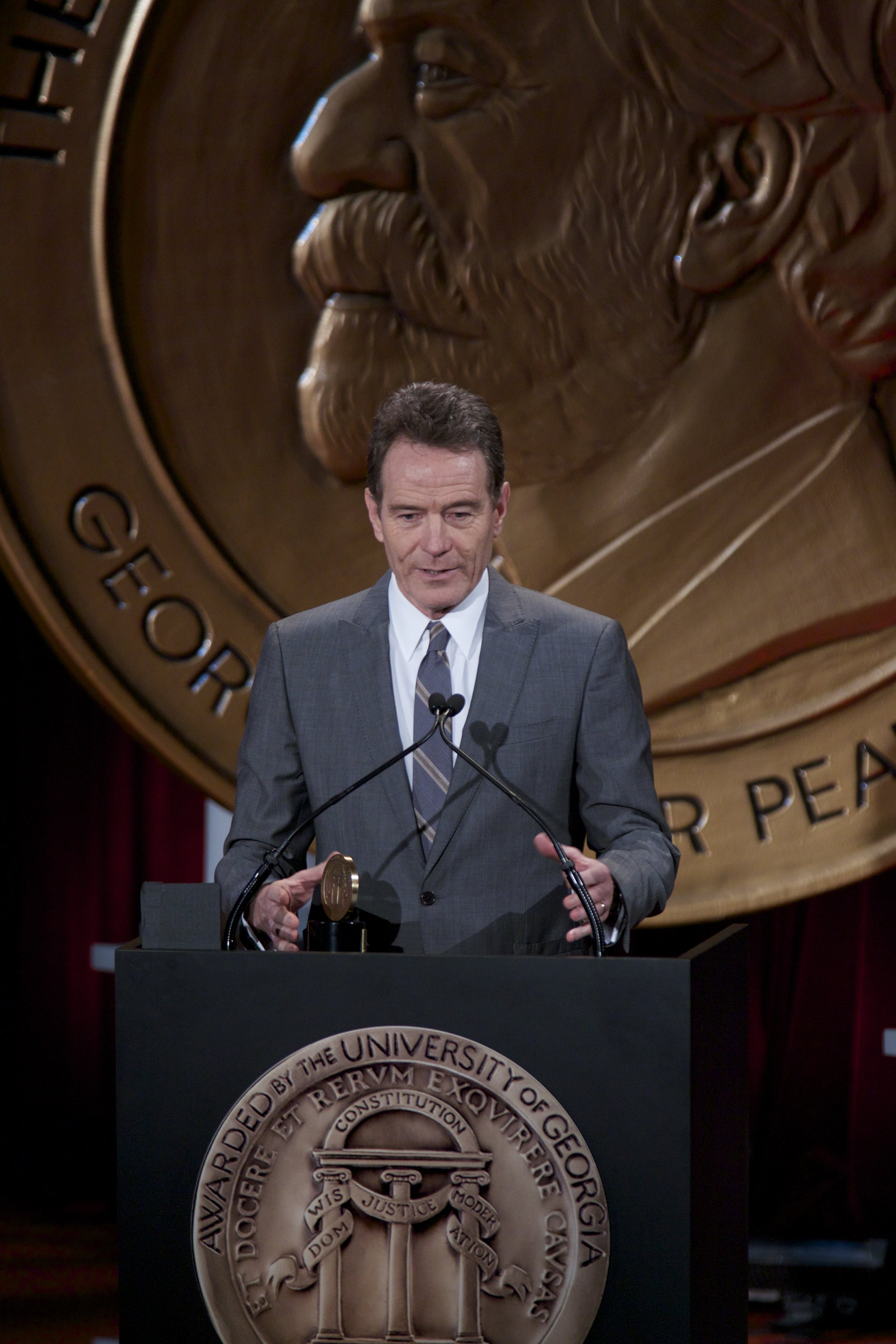 Bryan Cranston accepts the Peabody Award for Breaking Bad.